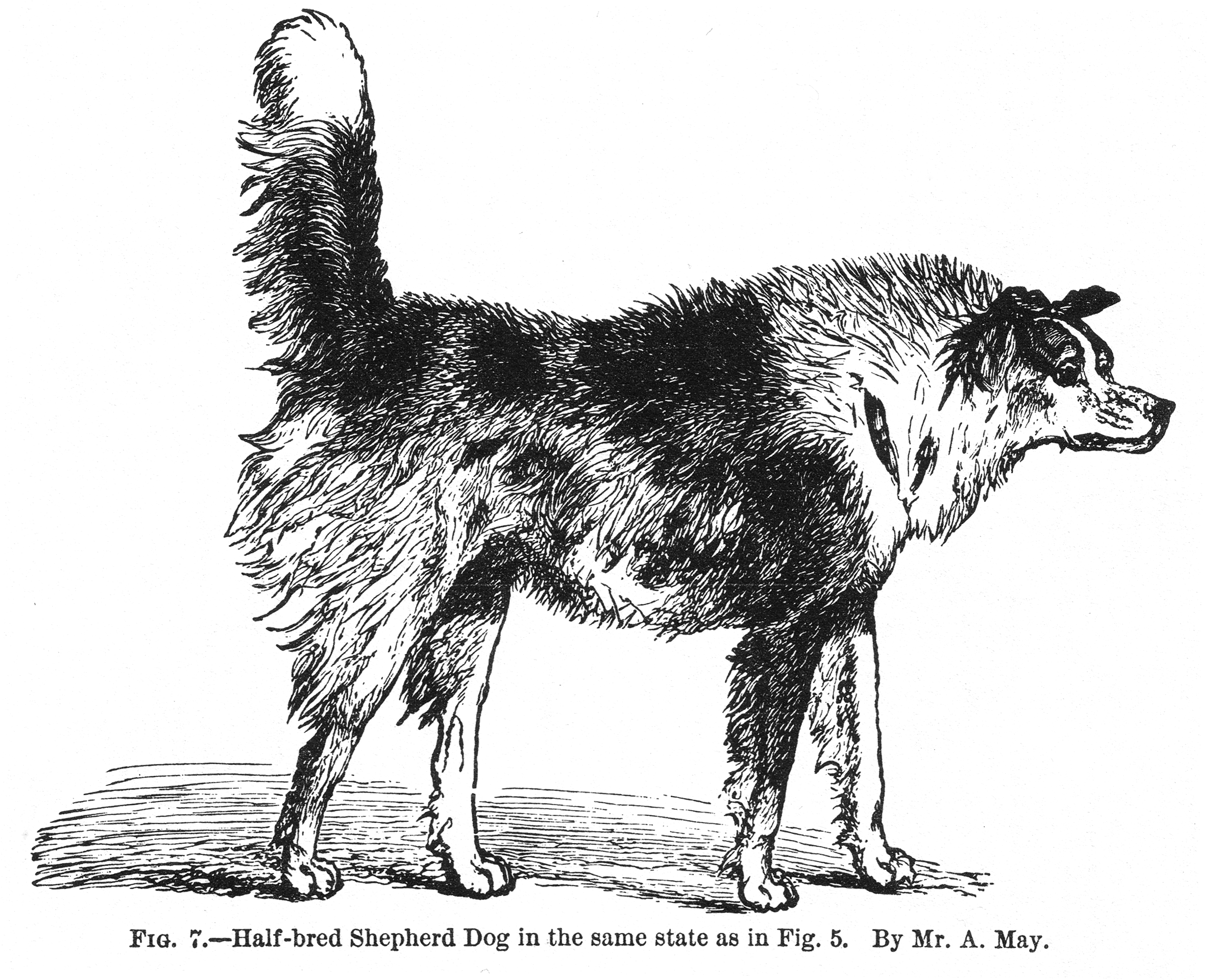 Figure 7 from Charles Darwin's The Expression of the Emotions in Man and Animals. Caption reads "FIG. 7.—Half-bred Shepherd Dog in the same state as in Fig. 5. By Mr. A. May." [i.e. approaching another dog with hostile intentions]. See also figure 8 by the same author. "First reproduced [from a sketch] by Mr. Cooper on wood by means of photography, and then engraved: by this means almost complete fidelity is ensured." (quoted from p. 26)